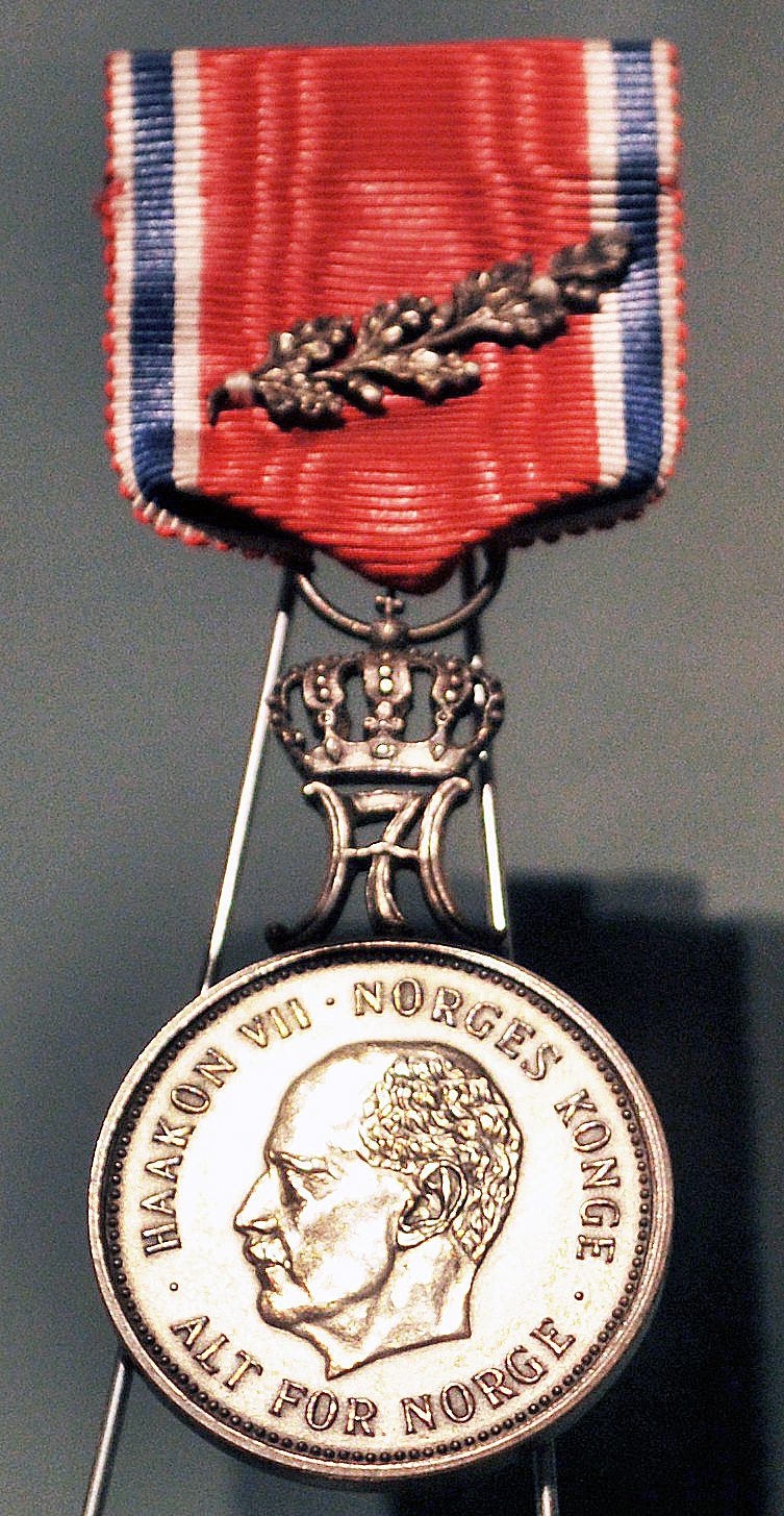 Leif A. Larsen's St. Olav's medal with oak branch, now in Nordsjøfartmuseet in Telavåg.